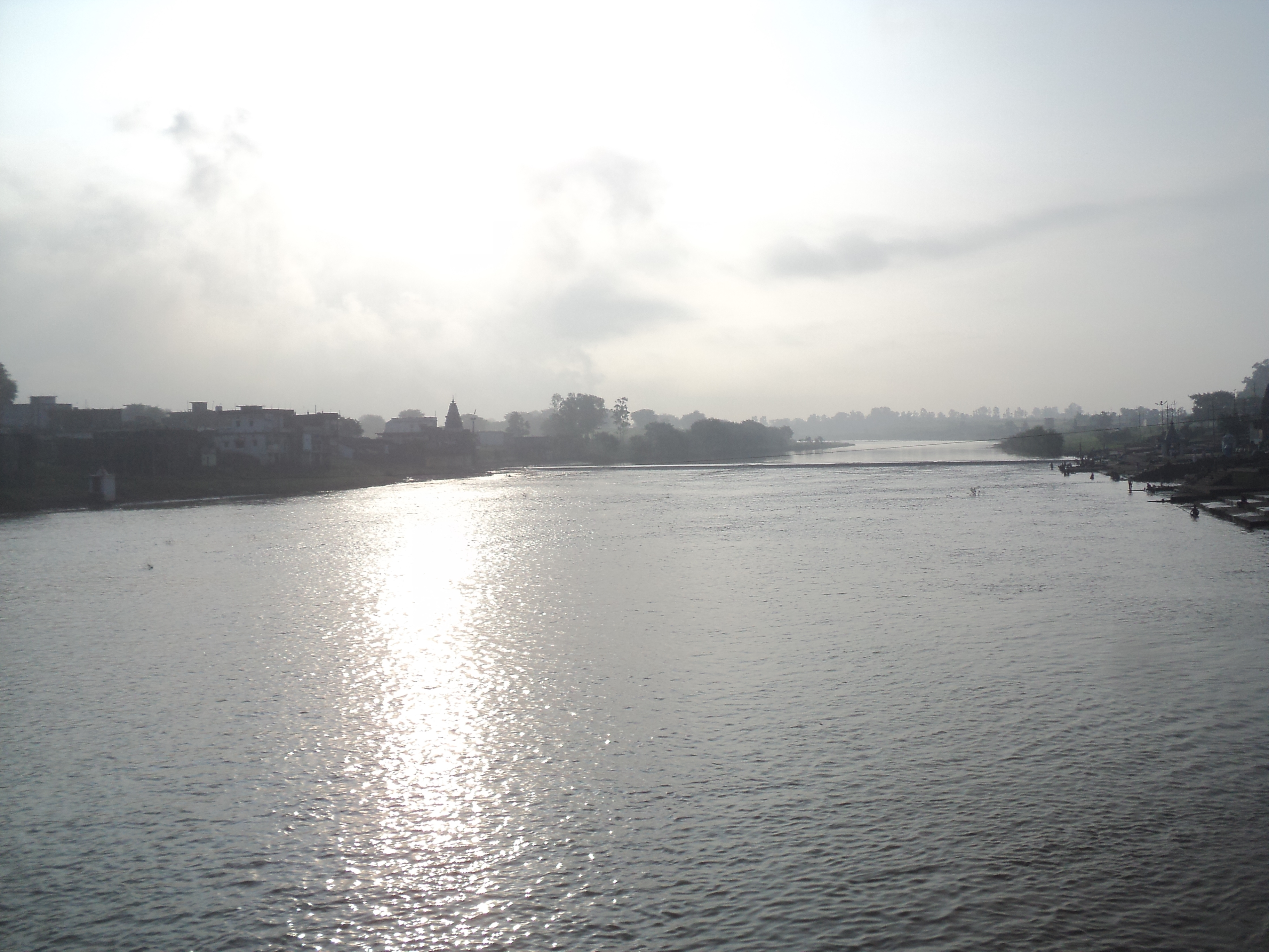 narmada river